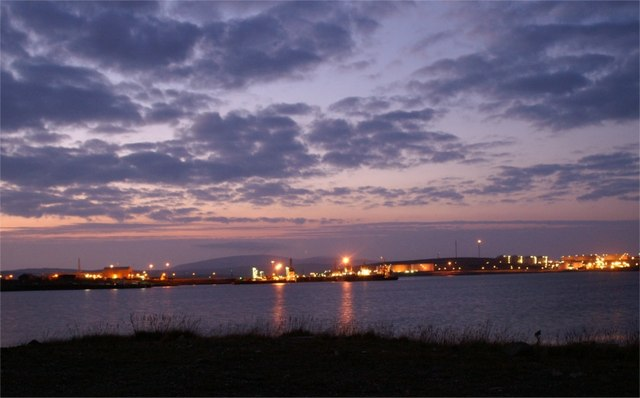 Garths Voe at dusk Looking towards Sella Ness and Sullom Voe Terminal.